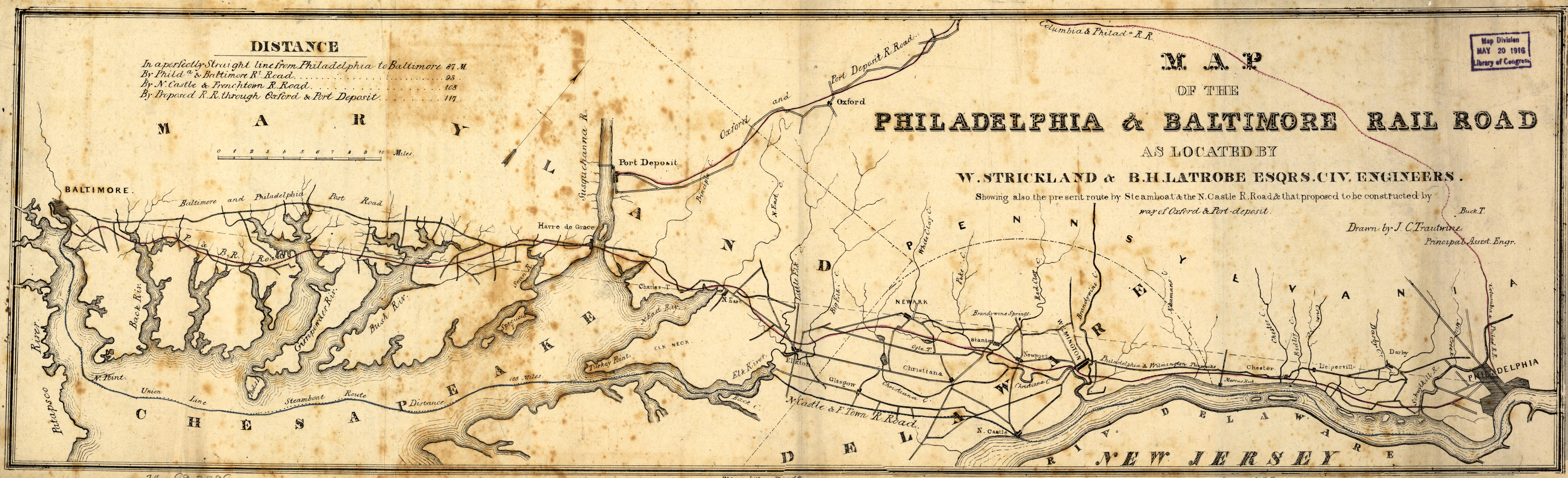 "Map of the Philadelphia, Wilmington, & Baltimore Railroad shewing [sic] its connections." Sketch map showing the area between Philadelphia and Baltimore indicating drainage, cities and towns, roads, and railroads. Published in the 1850s.